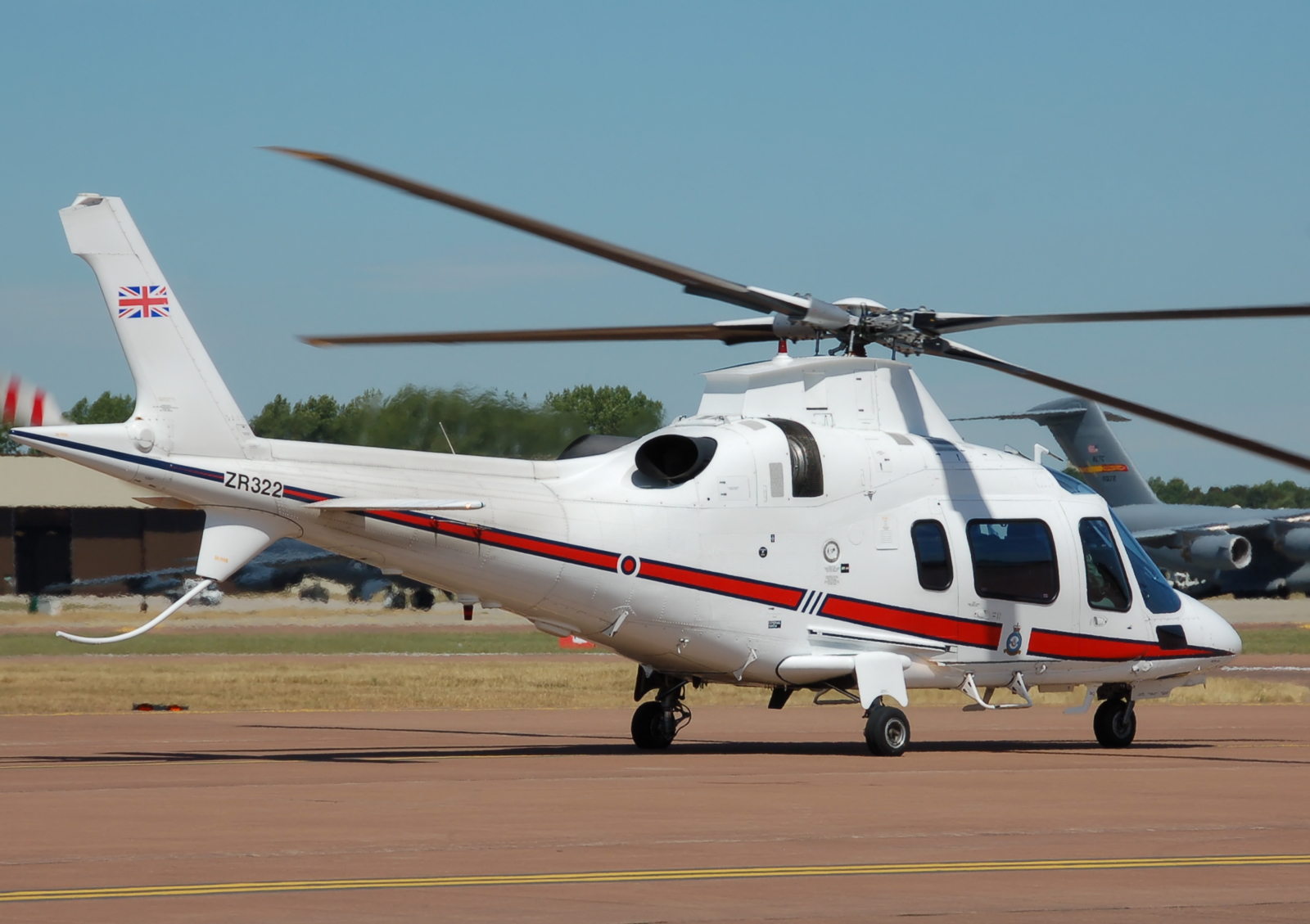 AgustaWestland AW-109E Power Elite helicopter of No. 32 (The Royal) Squadron, (registration ZR322), at the 2010 Royal International Air Tattoo, Fairford, Gloucestershire, England. Info from the article “No. 32 (Royal) Squadron”: “in 1995 the Royal Flight was merged into No. 32 Squadron to make No. 32 (Royal) Squadron. This merger ended the RAF's provision of dedicated VIP transport aircraft, the aircraft of No. 32 Squadron are only available to VIP passengers if not needed for military operations.”